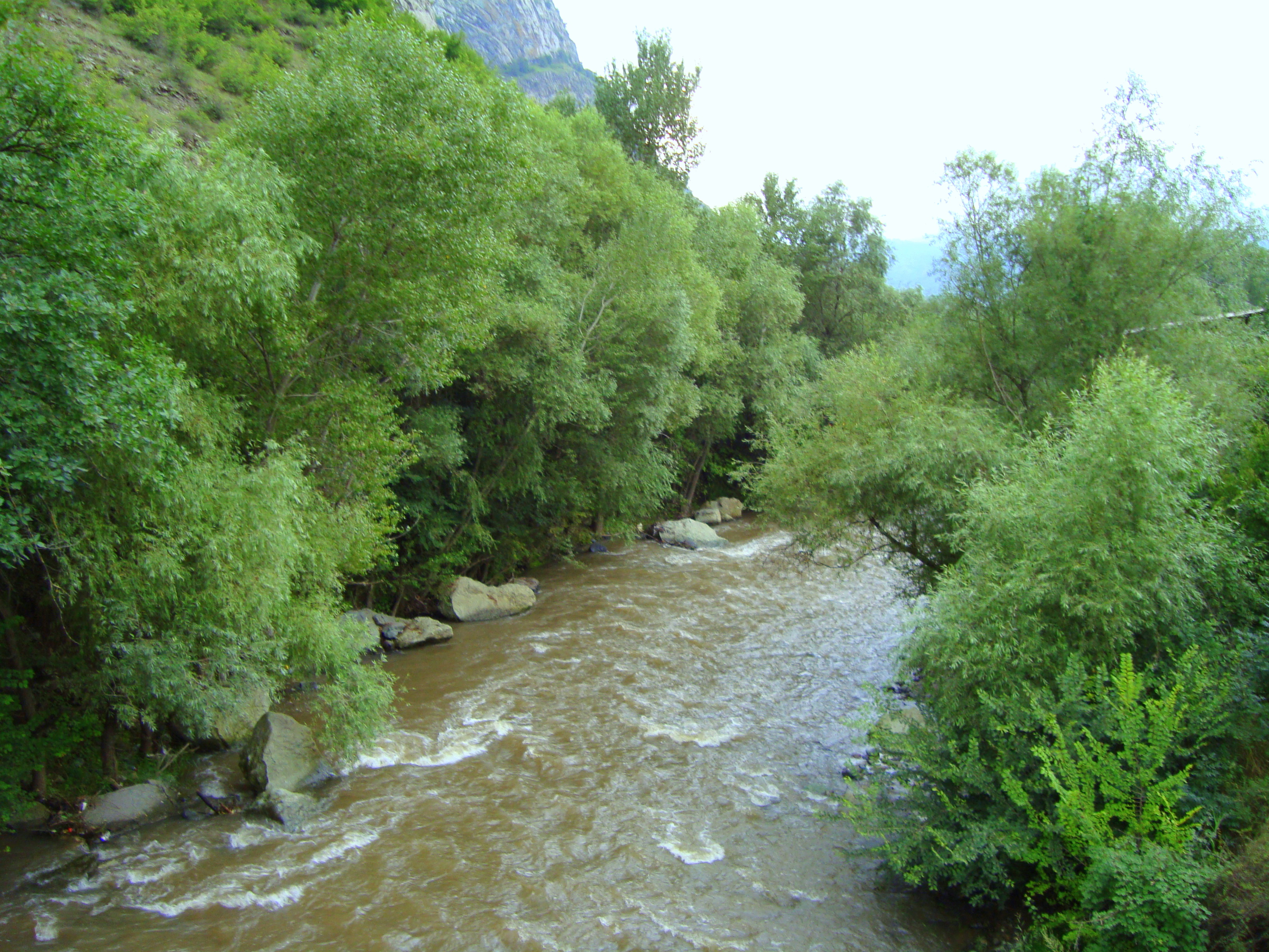 View on the river Agstev from the bridge on the road Dilijan — Chambarak. Location: Tavush province, Republic of Armenia.